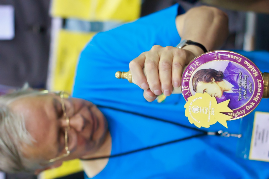 GBBF2011-02.jpg Great British Beer Festival 2011 at Earls Court, London.